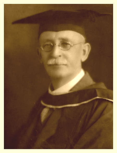 Studio portrait of C. R. Smith M.A. (Aberdeen)